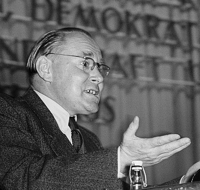 Fred Oelßner delivering a speech at a celebration of the sixtieth birthday of the "Leipziger Volkszeitung" newspaper